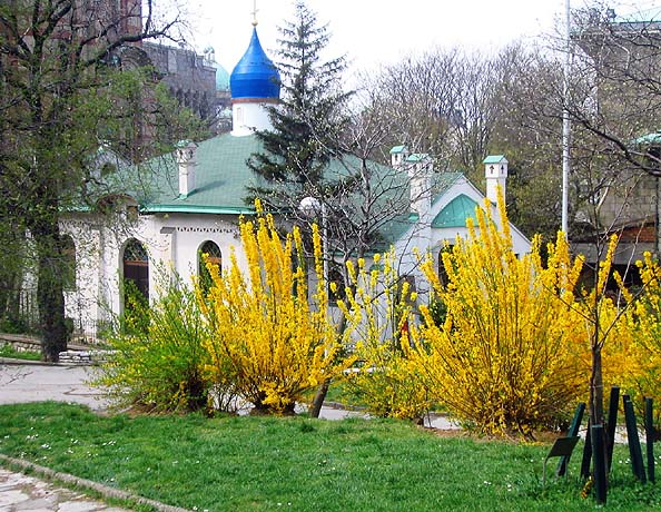 Russian Orthodox Church in Tašmajdan park, Belgrade, Serbia